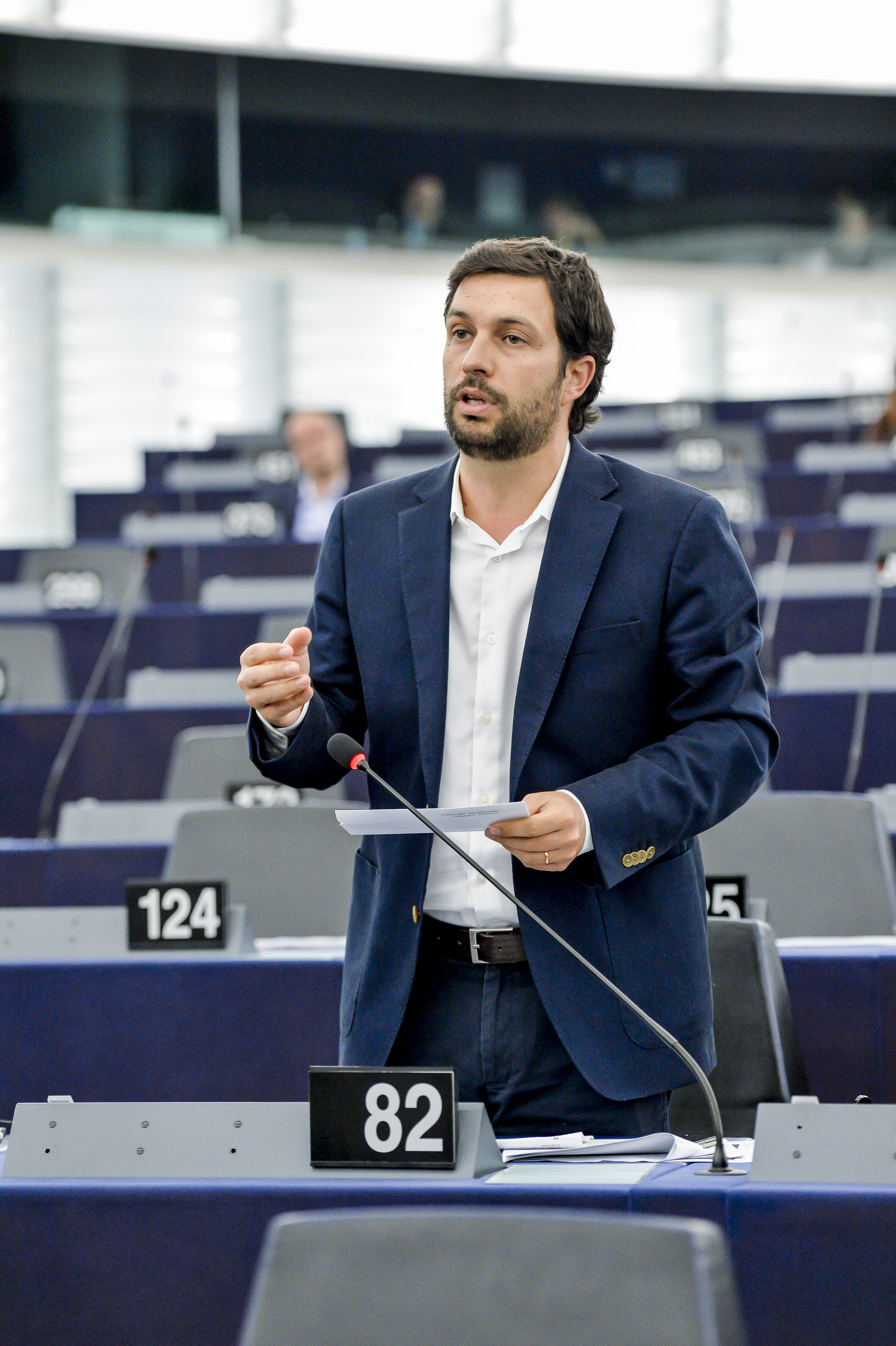 Plenary session - General budget of the European Union for 2020 - all sections